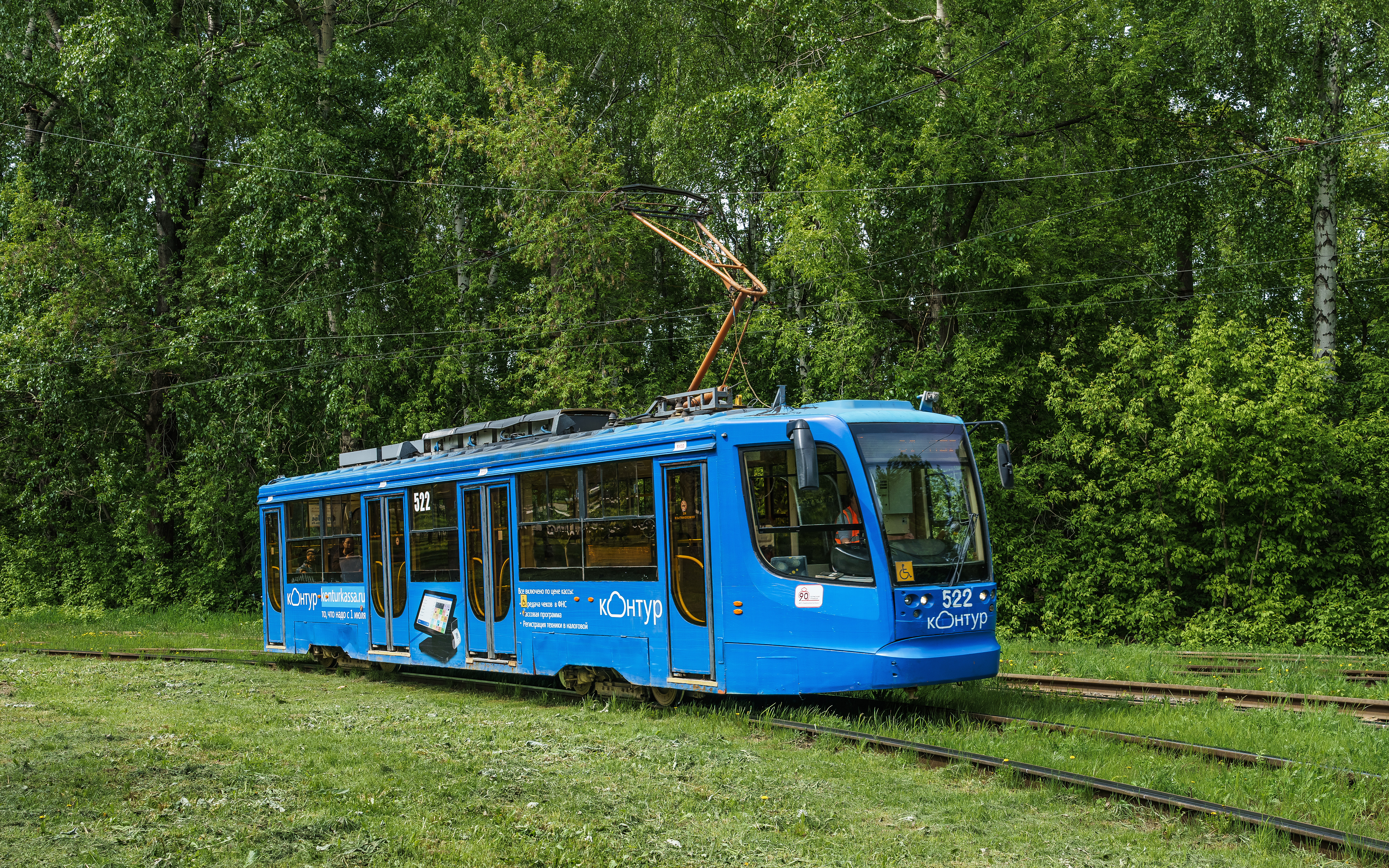 KTM-23 tram on Perm-II station loop in Perm, Russia